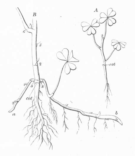 Oxalis corniculata; Two 1st year seedlings , cot, position of cotyledons. 2 - 6 are the first leaves in B.